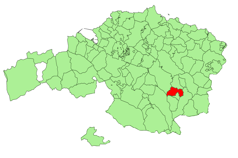 Durango municipality in the province of Biscay